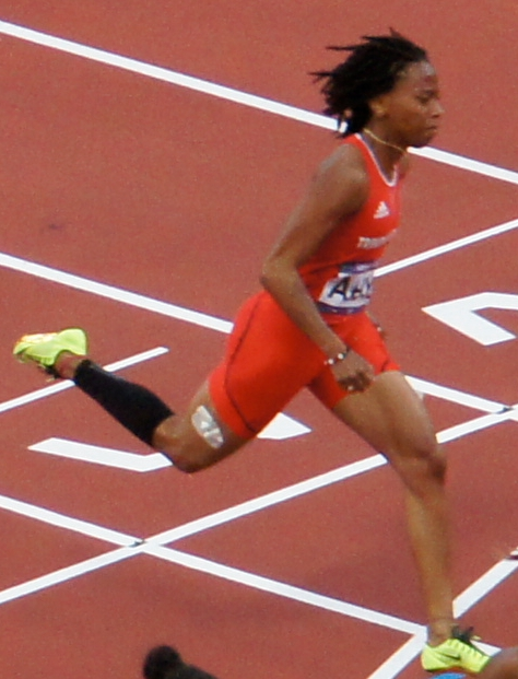 Michelle-Lee Ahye competing at the 2012 Summer Olympics